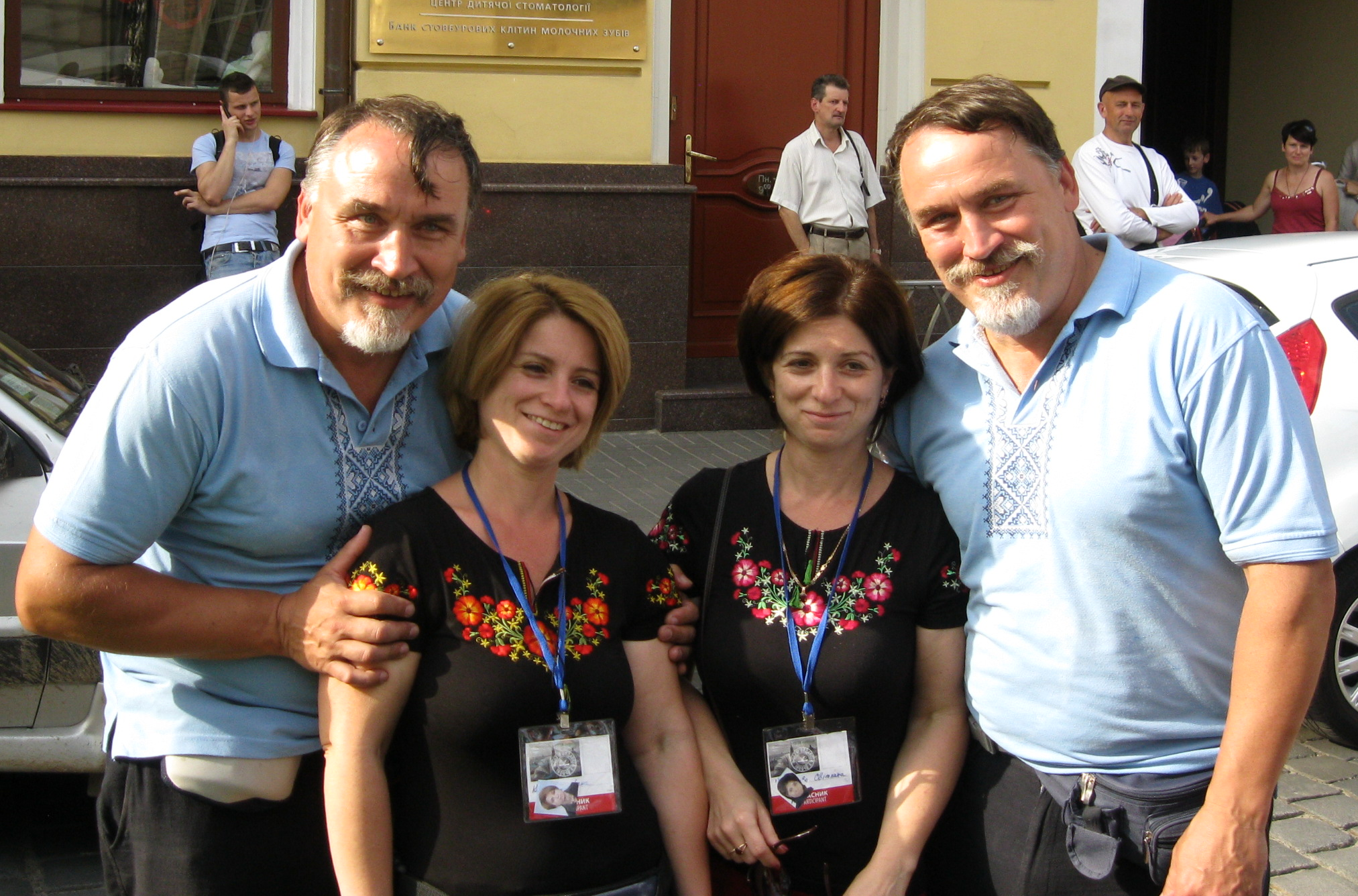 Photo taken on Publishers' Forum in Lviv 2014